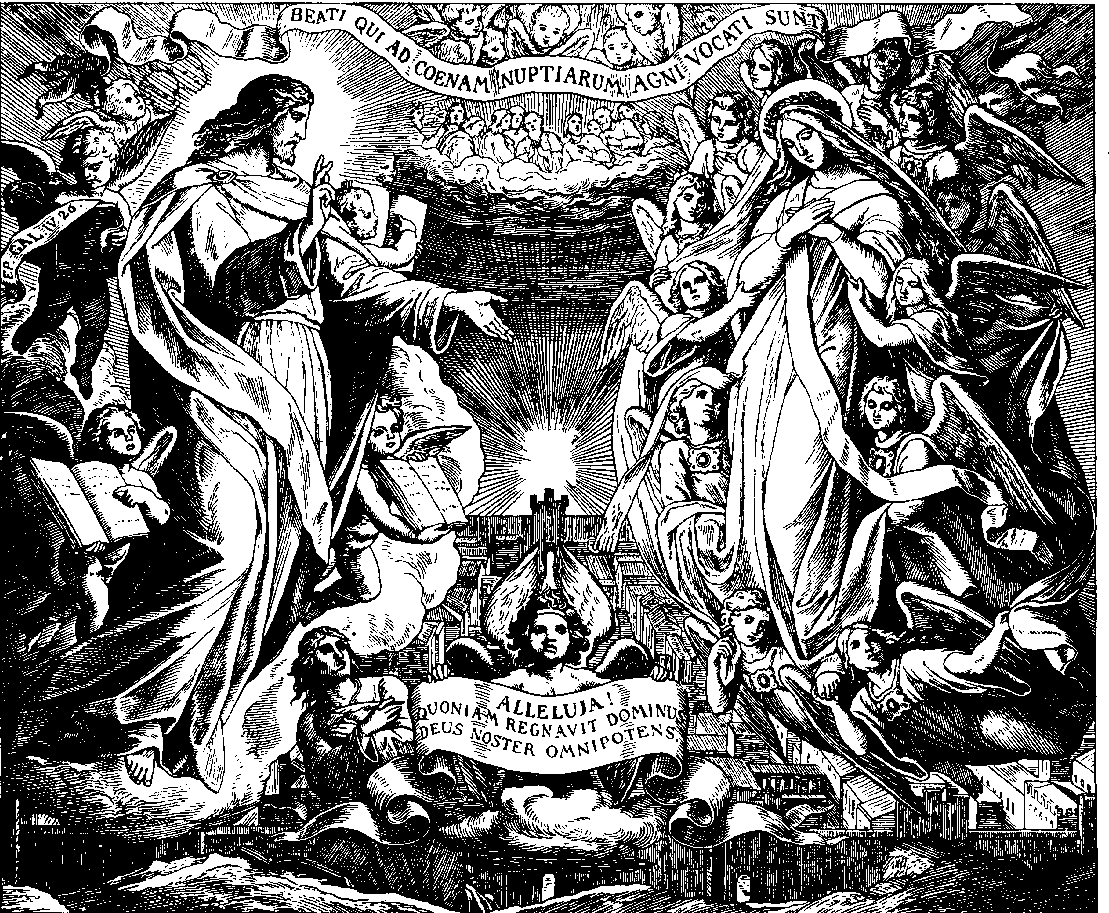 Woodcut for "Die Bibel in Bildern", 1860.